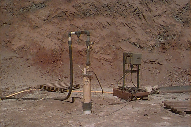 San Manuel recovery well used for extracting PLS from the in situ leaching process.